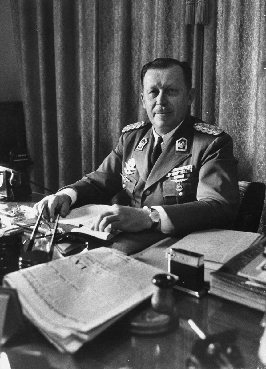 Alfredo Stroessner Matiauda (1912–2006) was a Paraguayan military officer who served as President of Paraguay from 1954 to 1989.